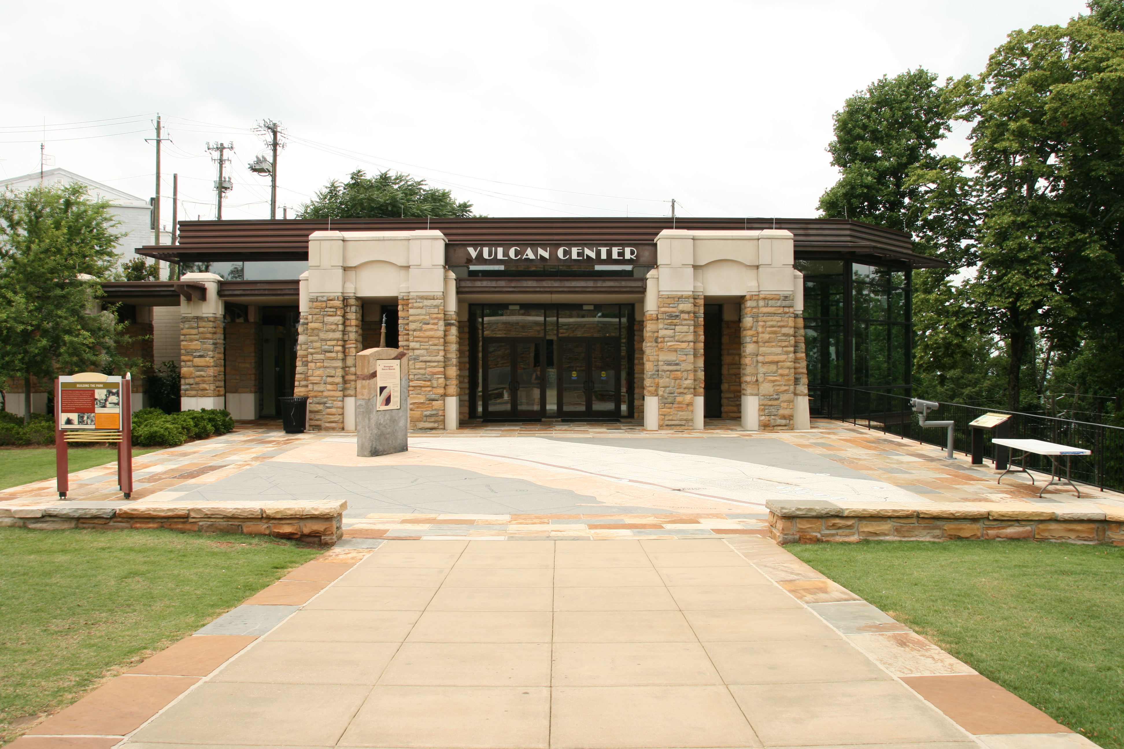 I took the picture myself, feel free to use where ever you would like, Vulcan Center at the top of Red Mountain in Birmingham Alabama USA